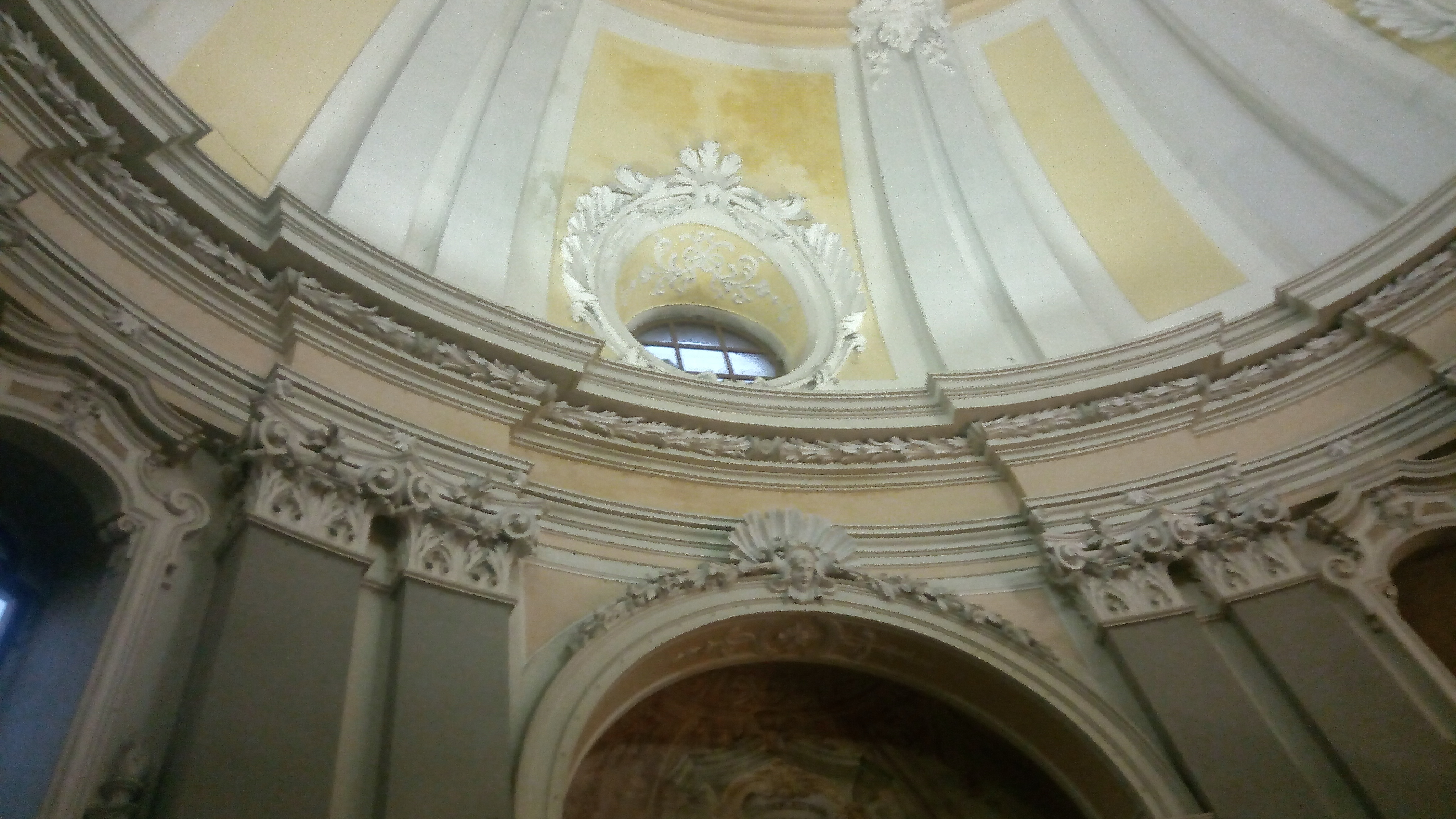 Oratorio del riscatto curch